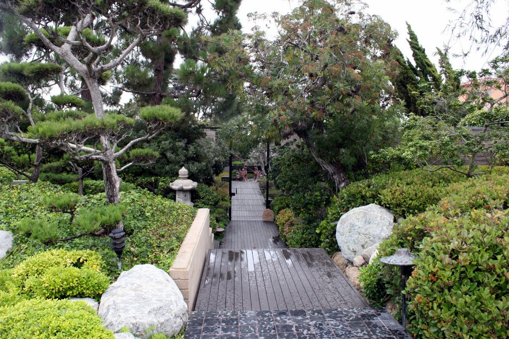 Robert O. Peterson-Russell Forester House